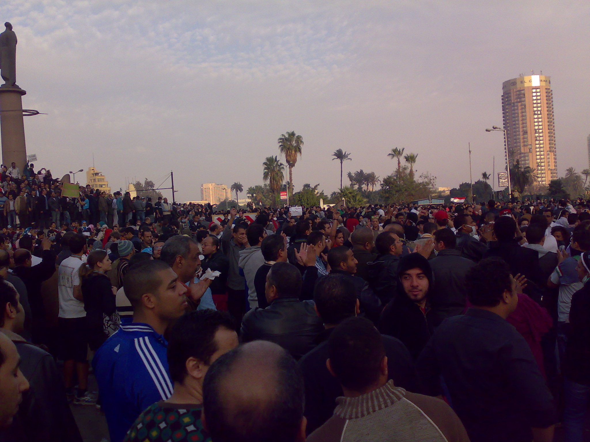 28 January Demo in Cairo.